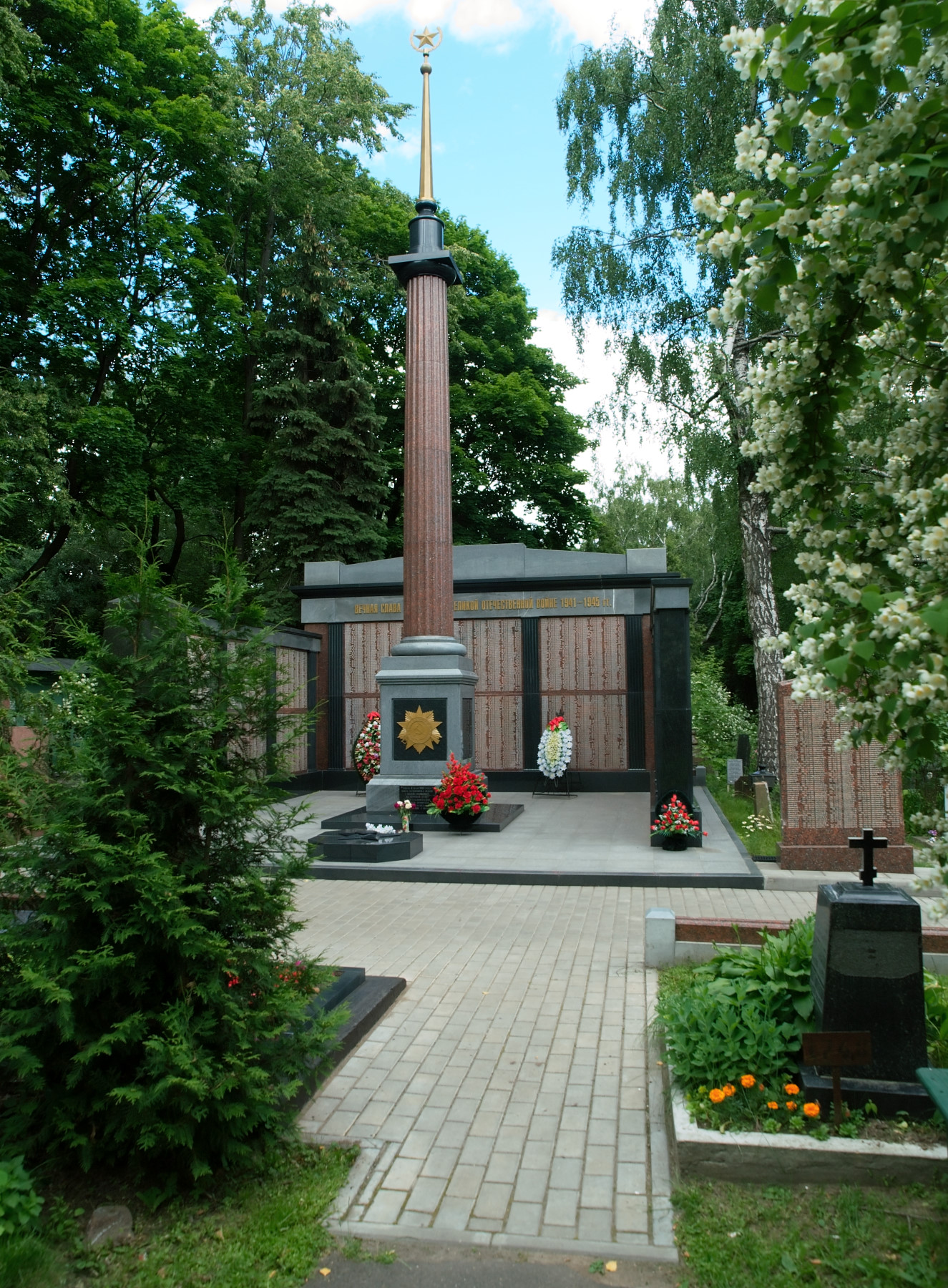 Mass world war II graves, Donskoye Cemetery in Moscow.